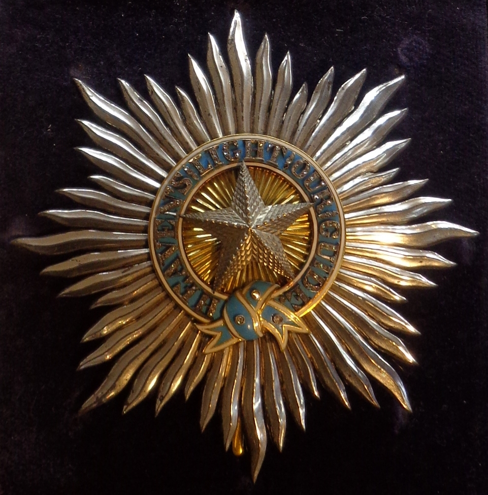 Order of the Star of India, star of Knight Commander, c.1900. United Kingdom. The exhibition of the Tallinn Museum of Orders of Knighthood, Estonia.